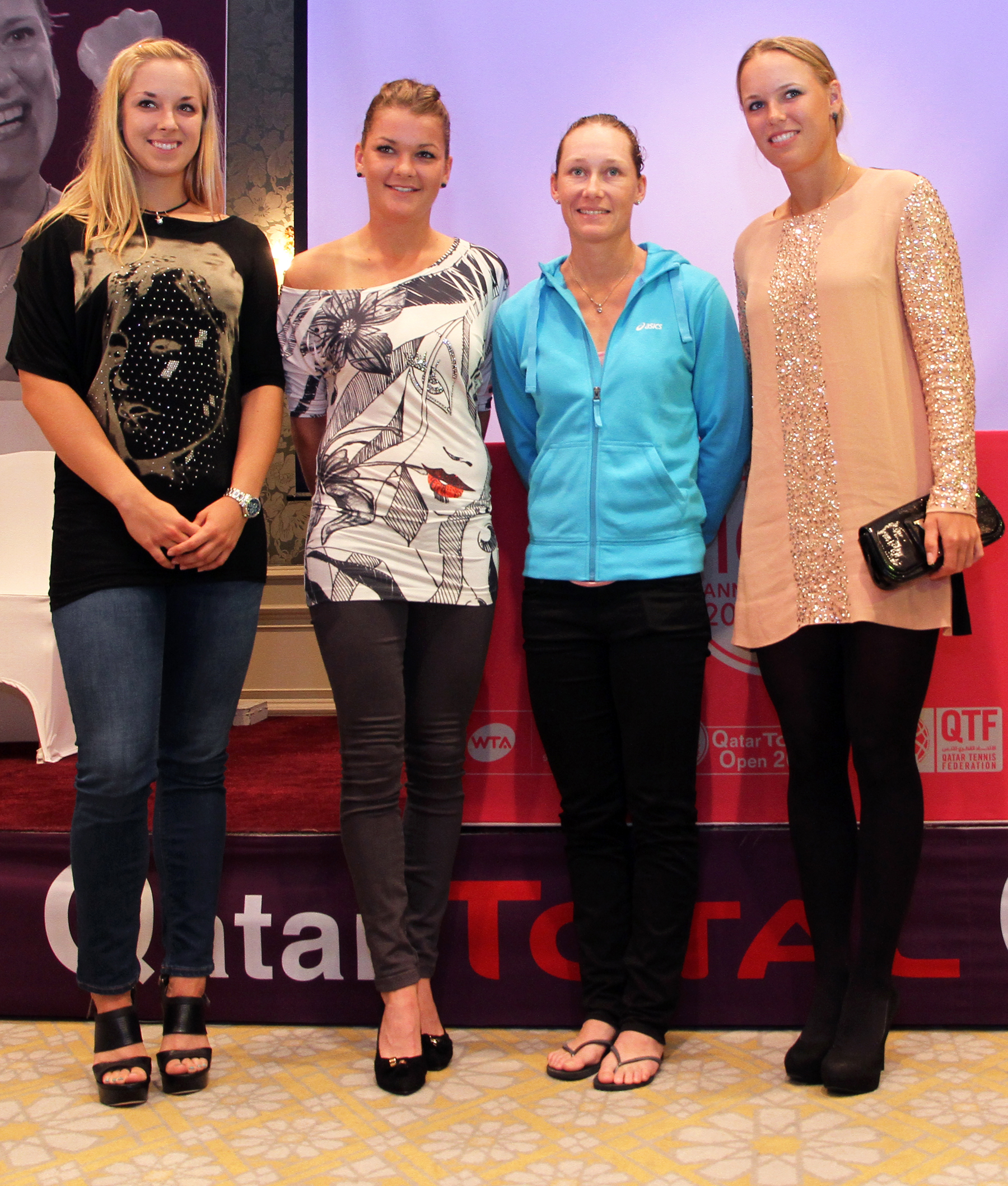 From left, Germany's Sabine Lisicky, Poland's Agnieszka Radwanska, Australia's Samantha Stosur and Denmark's Caroline Wozniacki during a Press conference in Doha.